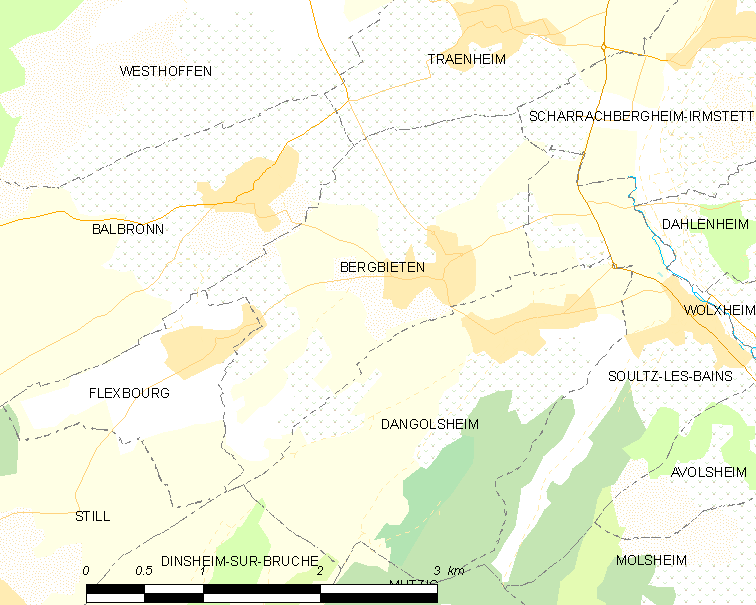 Map of French municipality